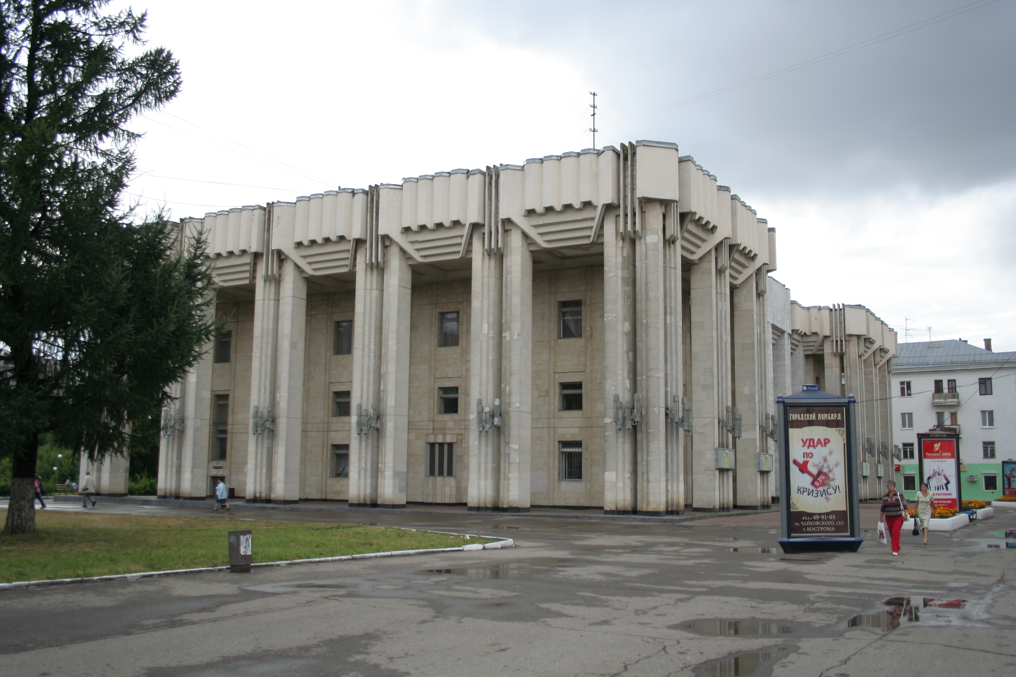 The Oblast Philharmony in Kostroma, Russia.